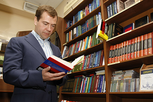 ST PETERSBURG. At St Petersburg State University.